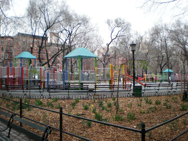 This photo is of Wikipedia Takes Manhattan location code 132, Seward Park (Manhattan).